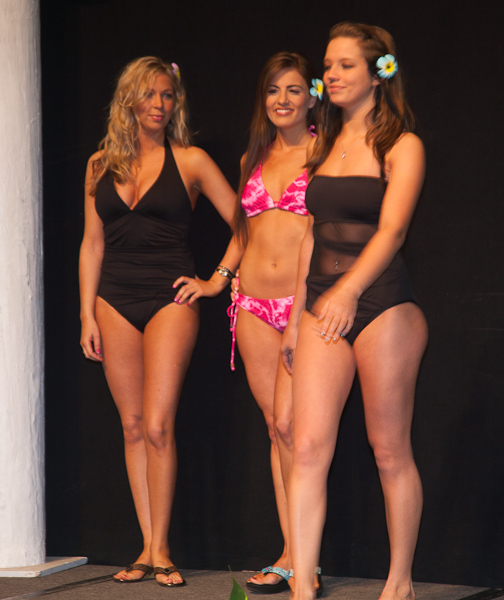 Every year there is a Women's Show in Anchorge, Alaska - it's a cool event to attend, even as a guy. The Women's Show included various fashion shows - this photo shows clothing on sale at Run to the Sun - a local beachwear, swimsuit, outdoor clothing, and also a tanning salon. The models are very nice but the lighting at the arena is ugly and it gives me problems all the time. Please ignore the lighting and enjoy the models! I took this photo in September 2011 at the Sullivan Arena in Anchorage, Alaska.